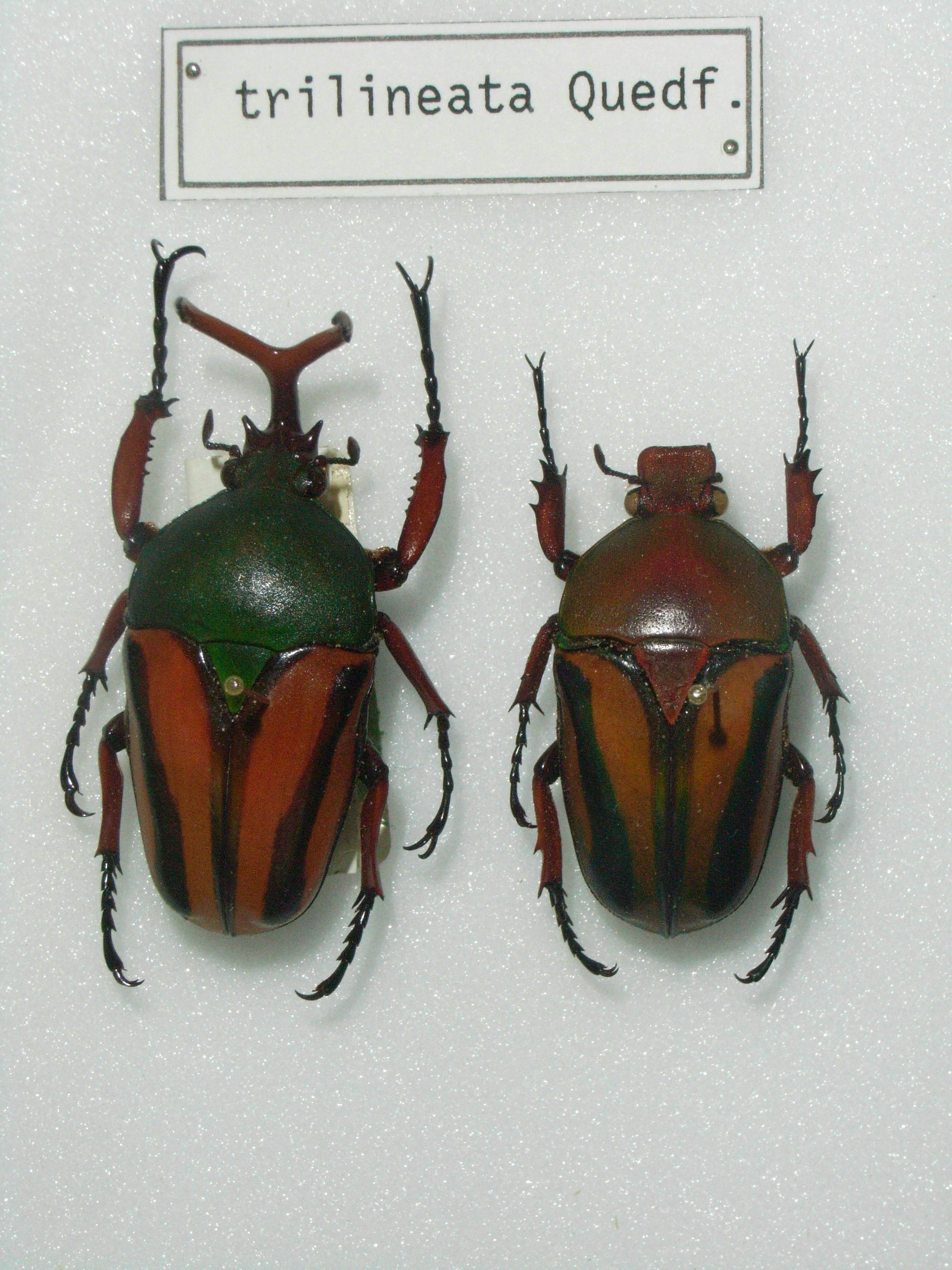 Eudicella trilineata Quedenfeldt,1880 Cetoniinae Scarabaeidae Ex coll. Museum Wiesbaden